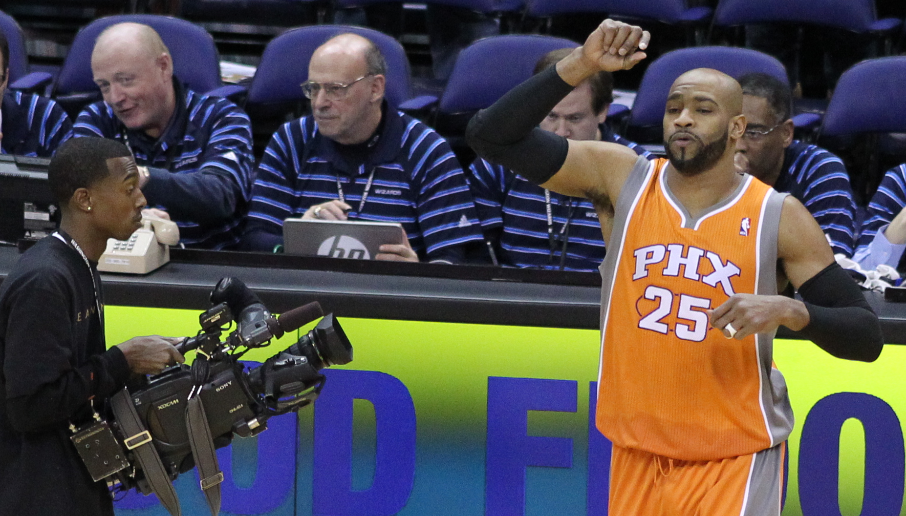 Washington Wizards v/s Phoenix Suns January 21, 2011